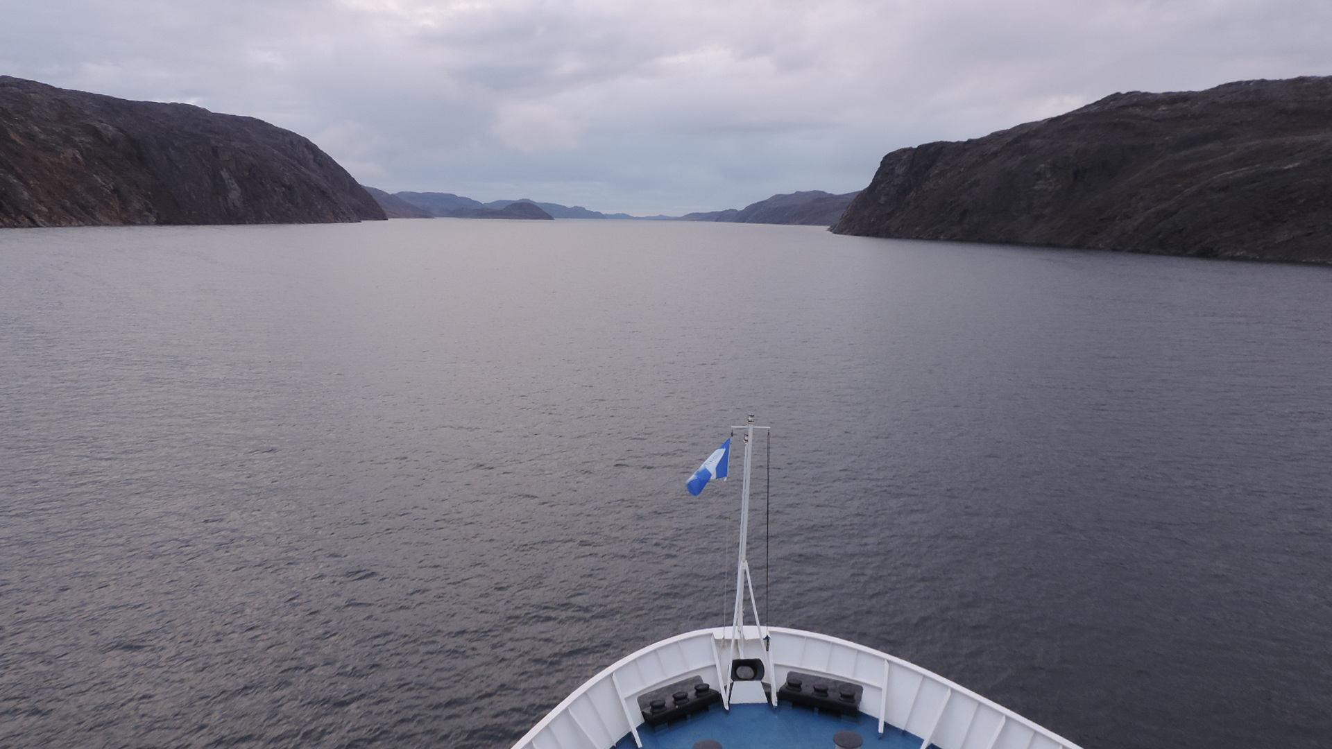 Travelling from west to east through Bellot Strait (western end) on MS Ocean Endeavour, September 2019